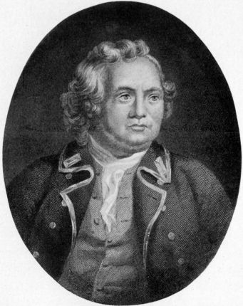 Israel Putnam by John Trumbull - Project Gutenberg eText 17049